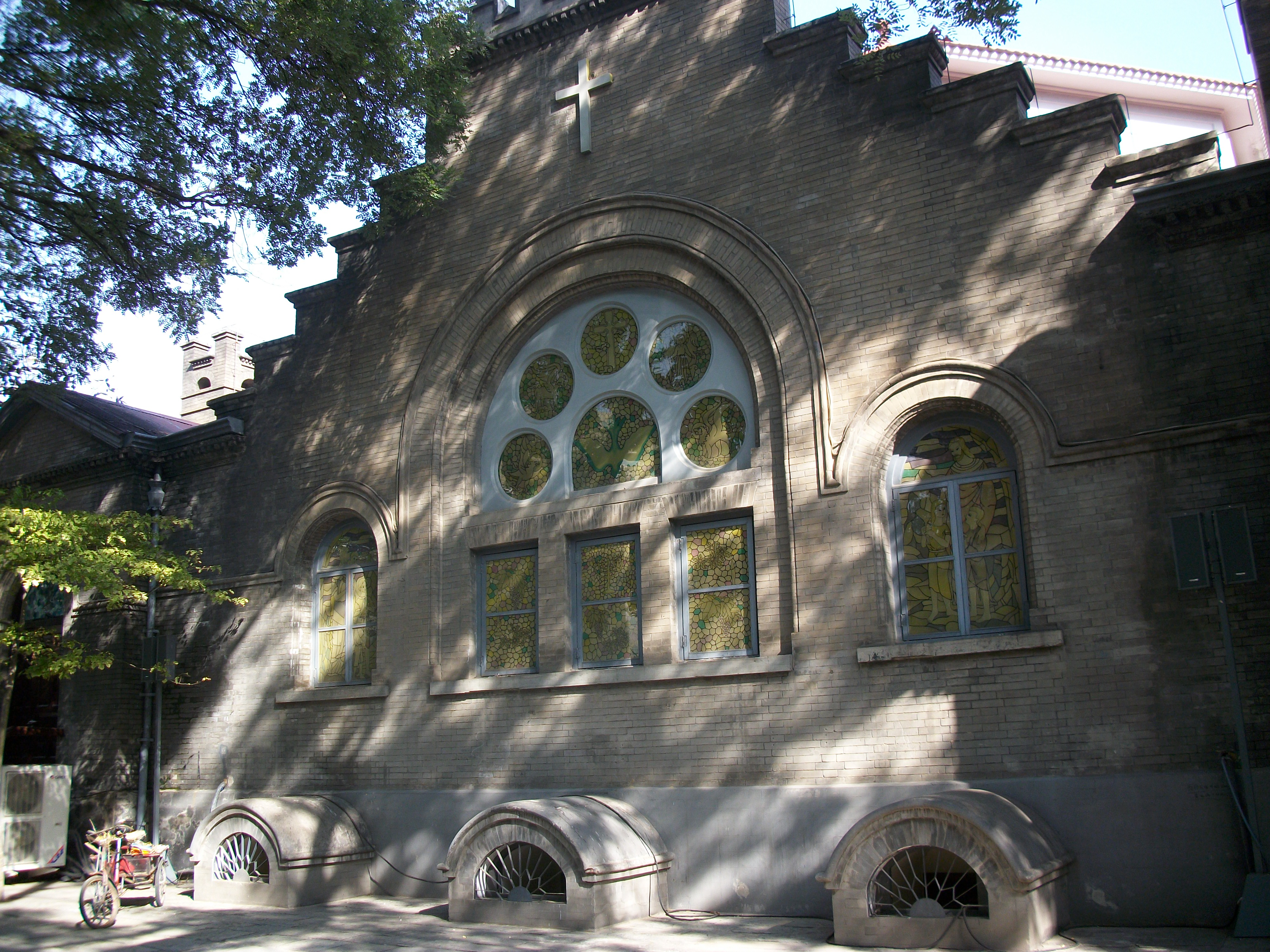 Chongwenmen Church in Beijing.